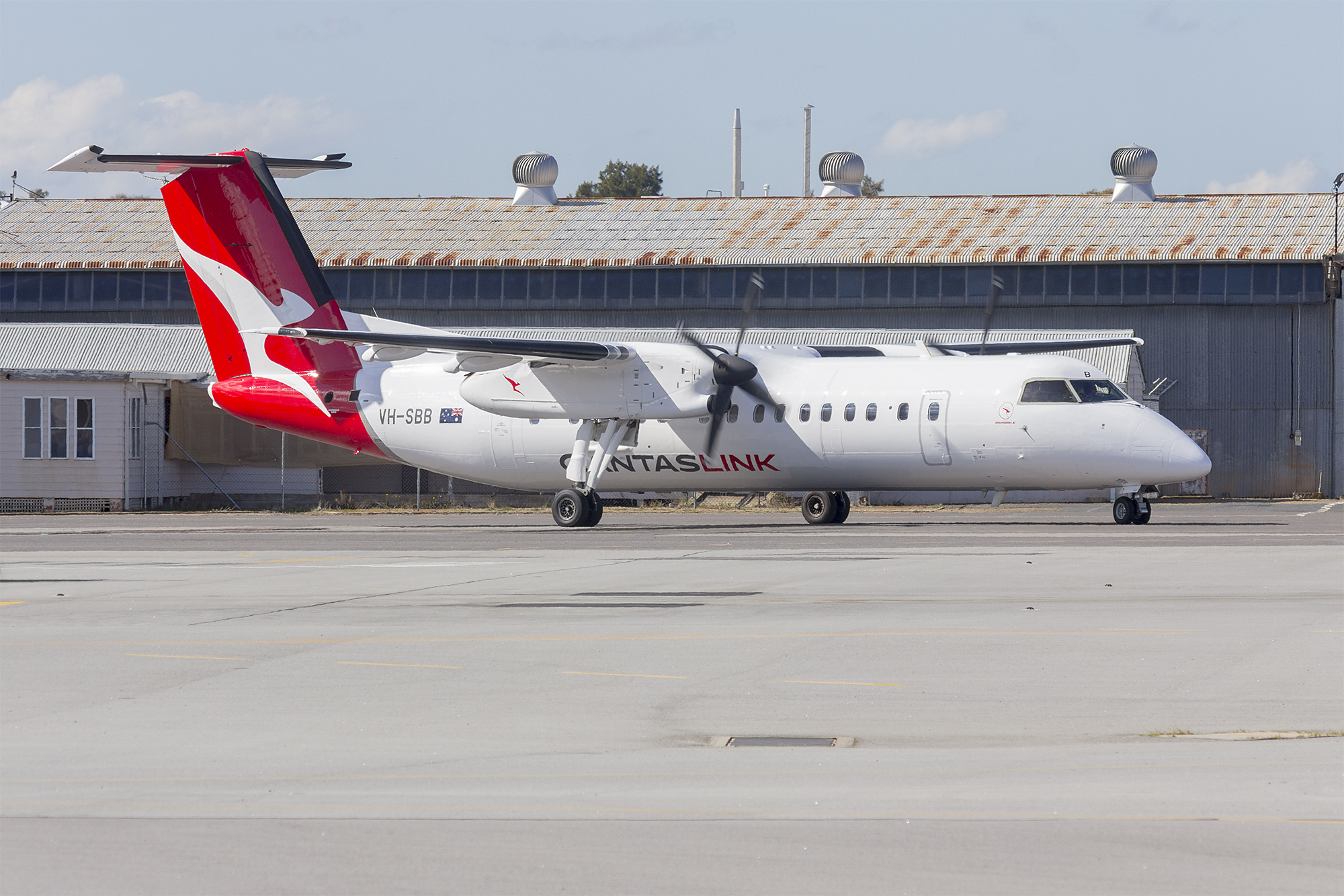 QantasLink (VH-SBB) Bombardier DHC-8-315Q Dash 8 taxiing at Wagga Wagga Airport.